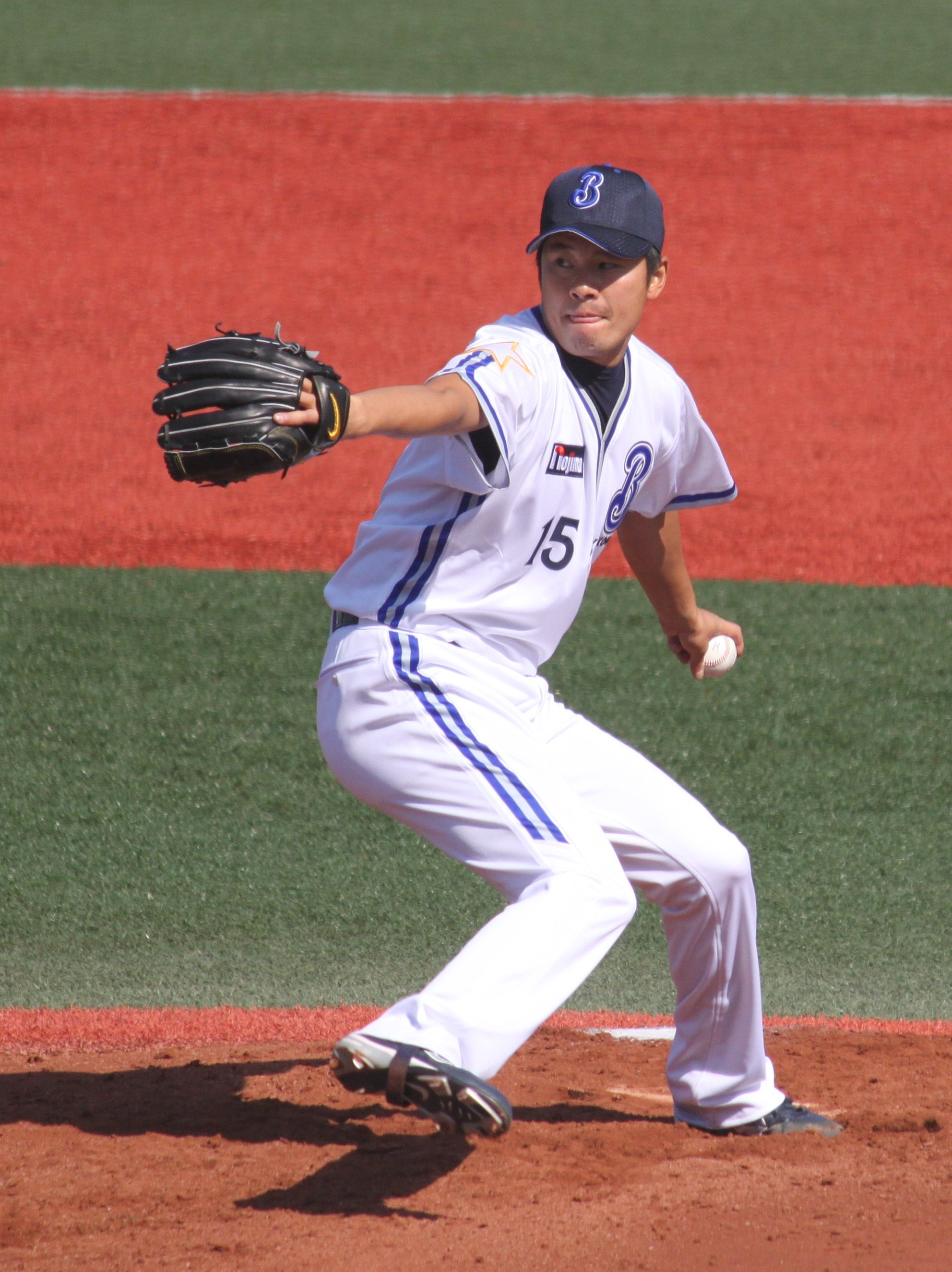 Shogo Yamamoto, pitcher of the Yokohama BayStars, at Yokosuka Stadium.